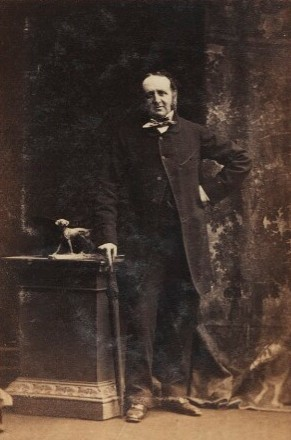 Portrait of Edward Harbottle Grimston (1812–1881), English politician, cleric and cricketer.